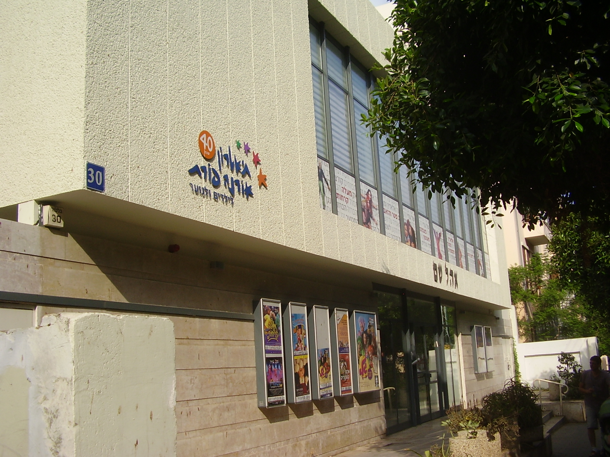 orna porat children and youth theater in tel aviv תיאטרון לילדים ונוער ע"ש אורנה פורת באולם "אוהל שם" בתל אביב